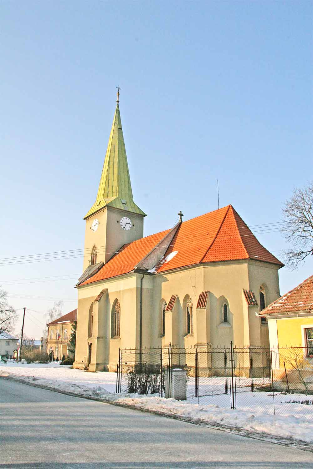 St Bartholomew church in Kunětice, Pardubice District, Czech Republic)